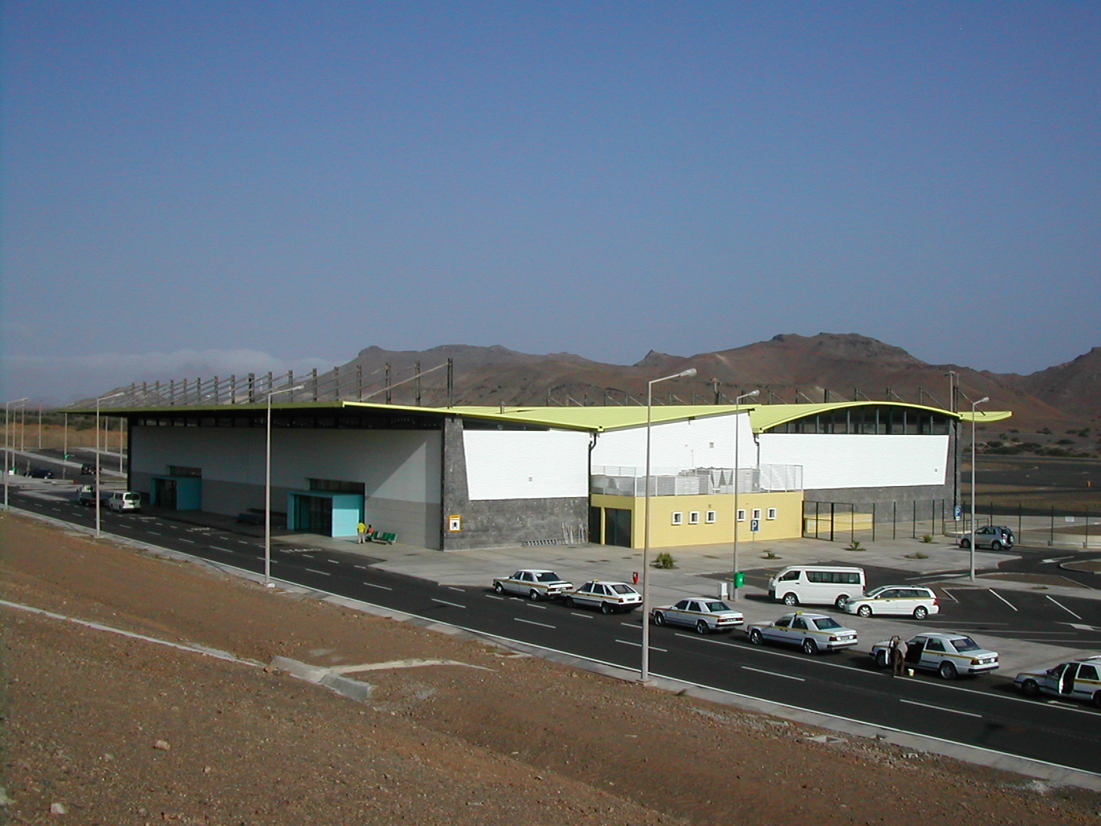 New terminal at São Pedro (now Cesária Évora) Airport, São Vicente Island, Cape Verde